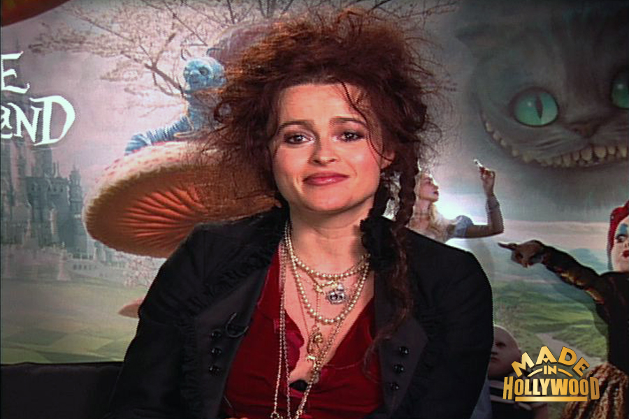 Helena Bonham Carter at Alice In Wonderland Fan Event